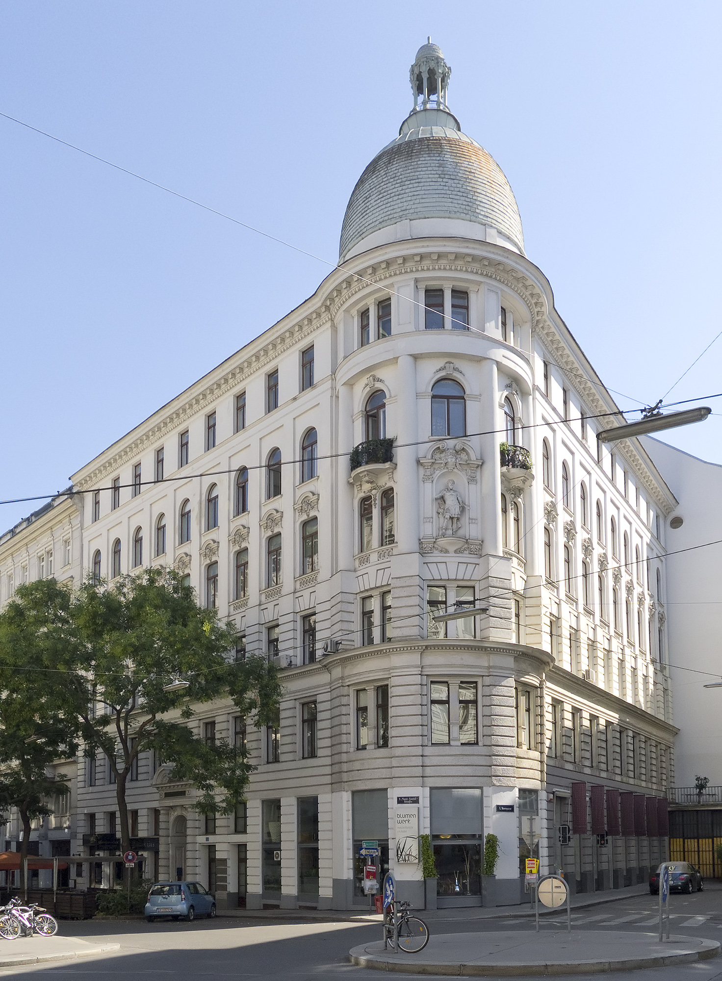 Residential building Sterngasse 4, Vienna